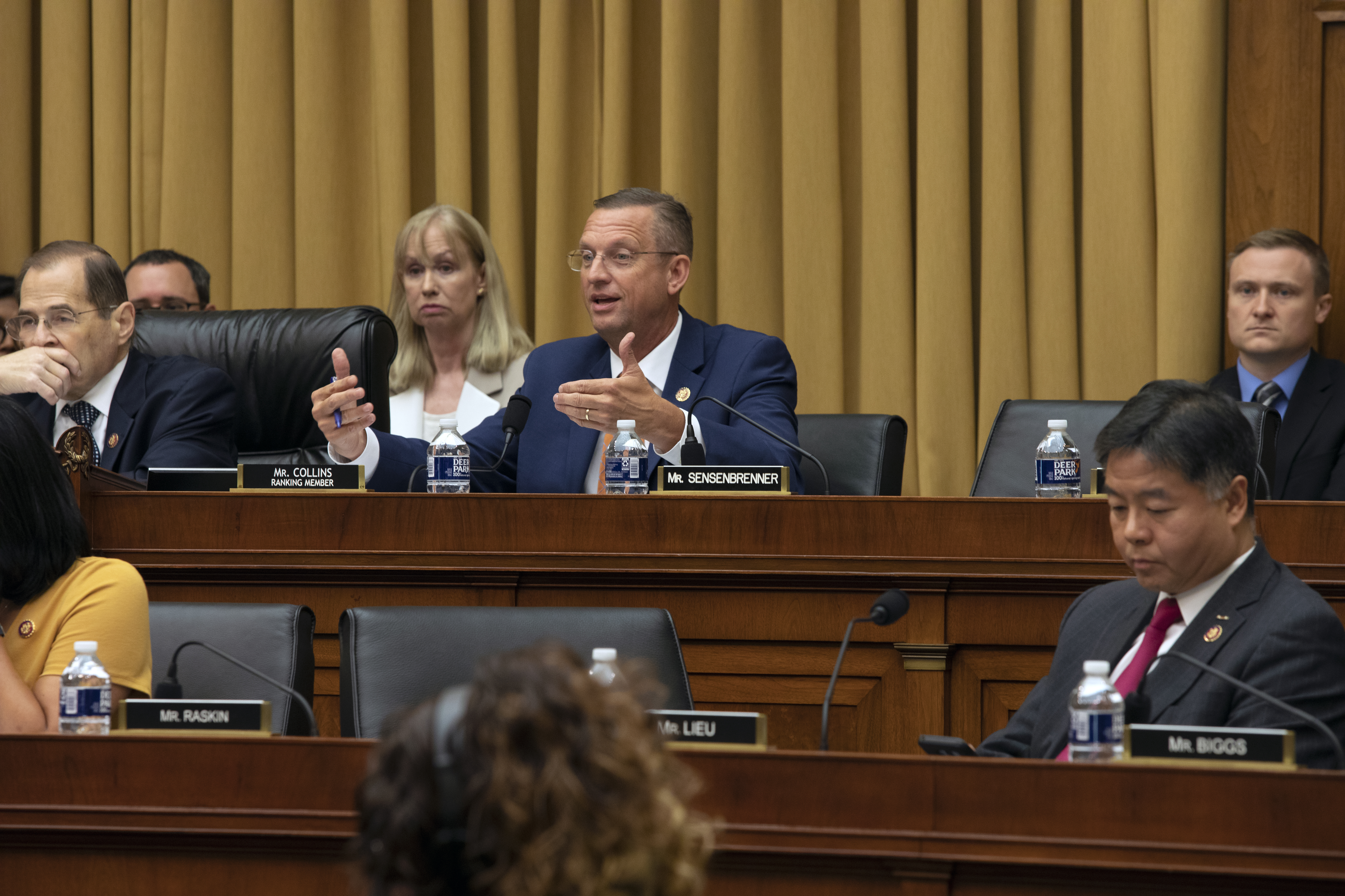 Chief, Law Enforcement, U.S. Border Patrol Brian Hastings testifies before the House Committee on the Judiciary in a hearing titled “Oversight of Family Separation and U.S. Customs and Border Protection Short-Term Custody Under the Trump Administration”. Photographer: Donna Burton